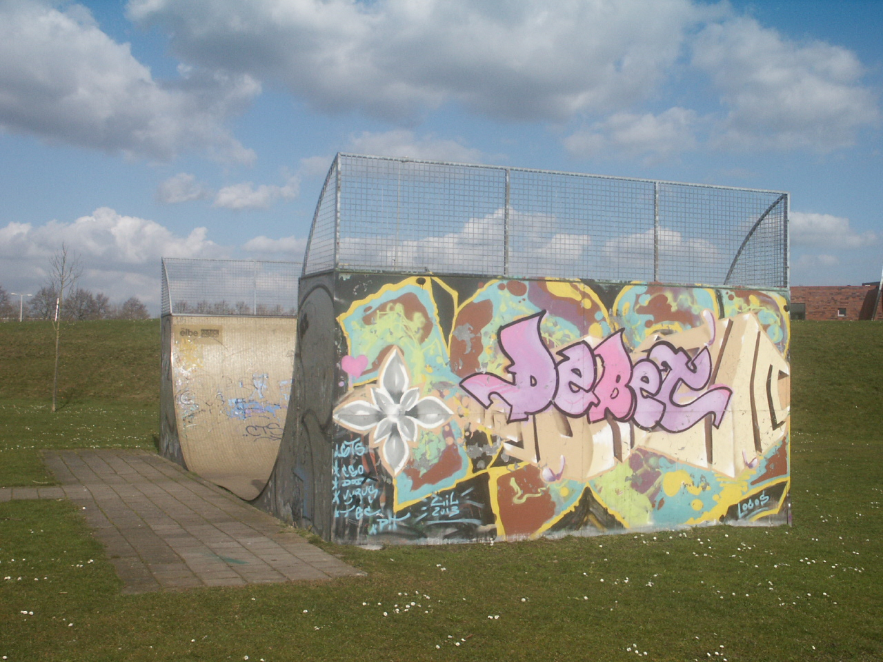 Street art: graffiti on a half-pipe Venserpolder, Amsterdam